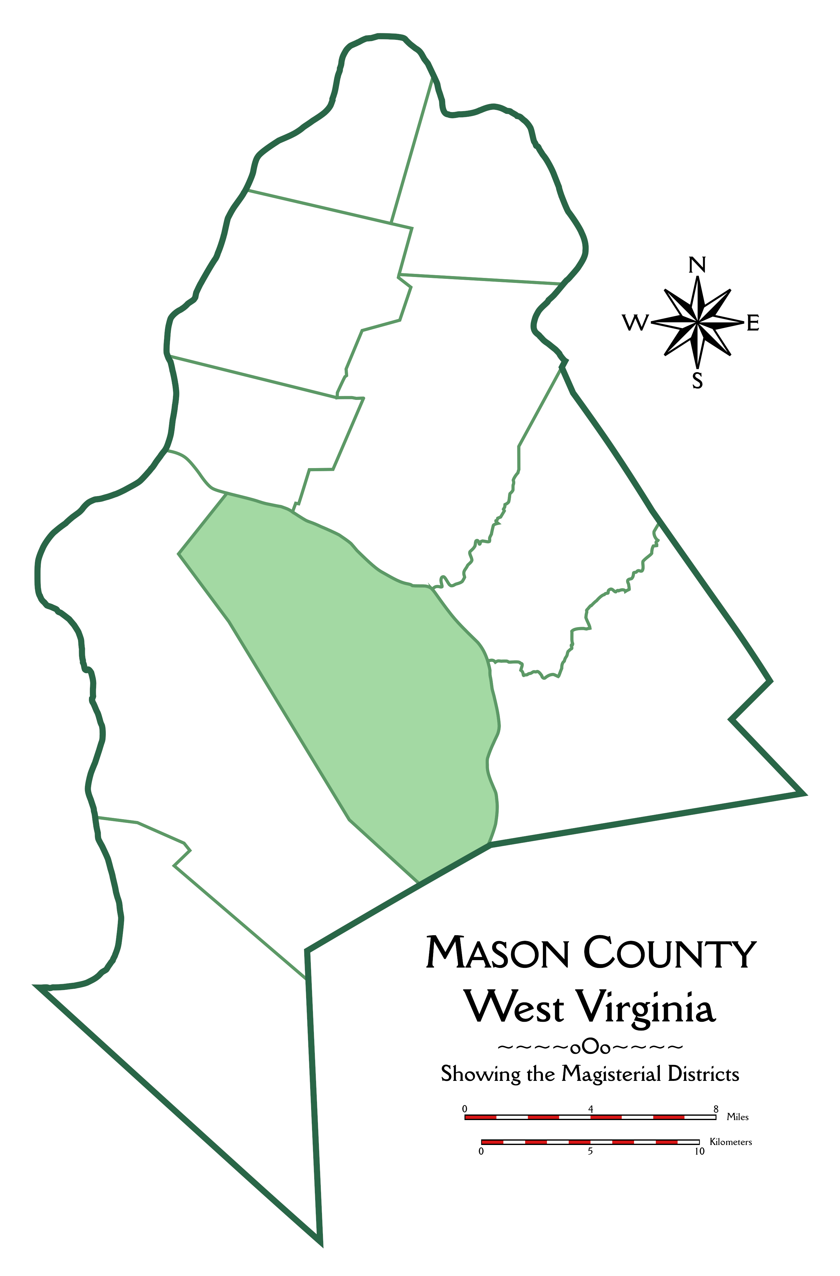 This is an outline map of Mason County, West Virginia, showing the boundaries of the magisterial districts. Arbuckle District is highlighted.